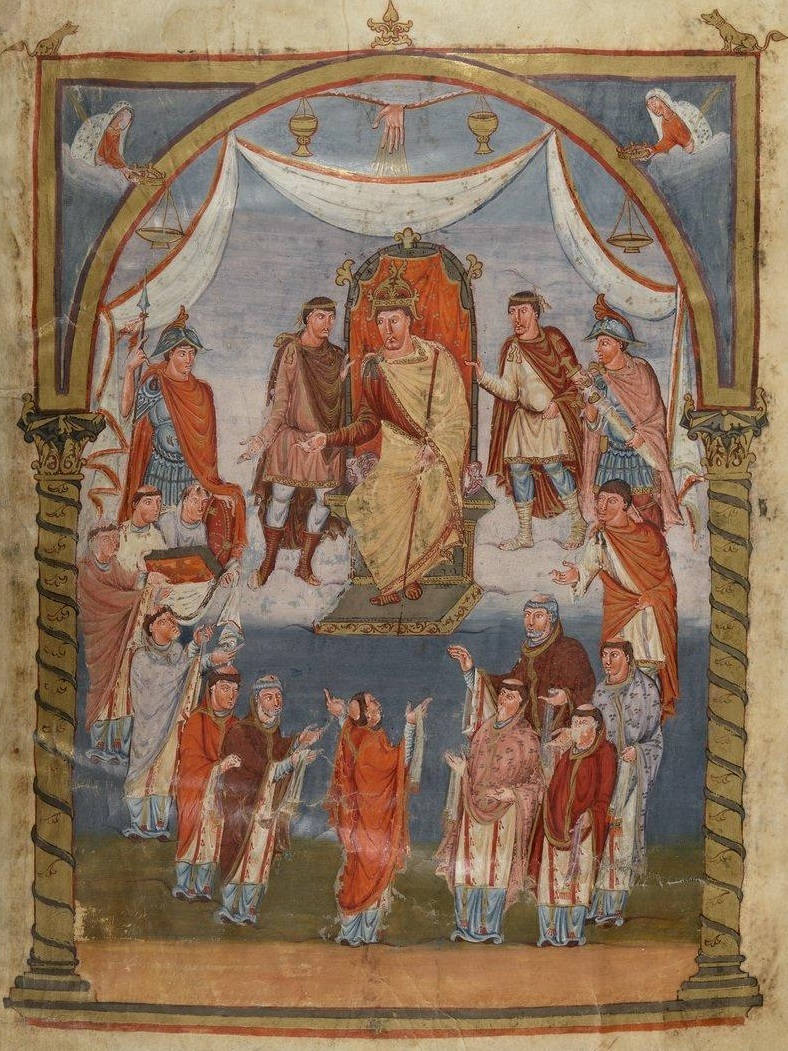 Charles the Bald welcomes monks from Tours who bring the Vivian Bible which includes this miniature. Bibliothèque Nationale, Paris